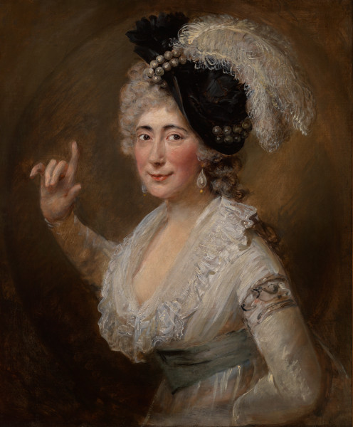 Isabella Mattocks actor by Gainsborough Dupont exhib 1833